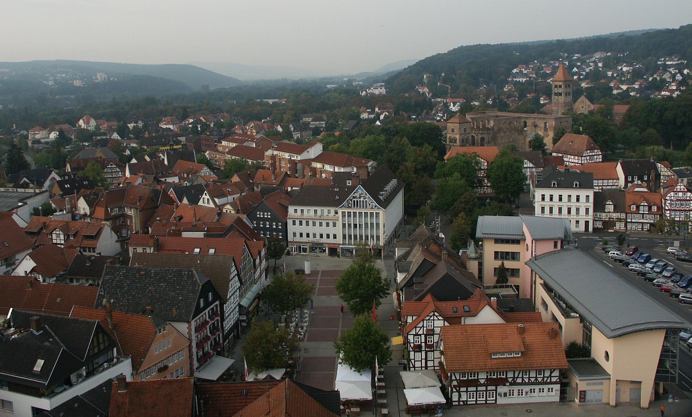 in the foreground Linggplatz, on the right the Cathedral and on the left the cure area and the valley of the Fulda